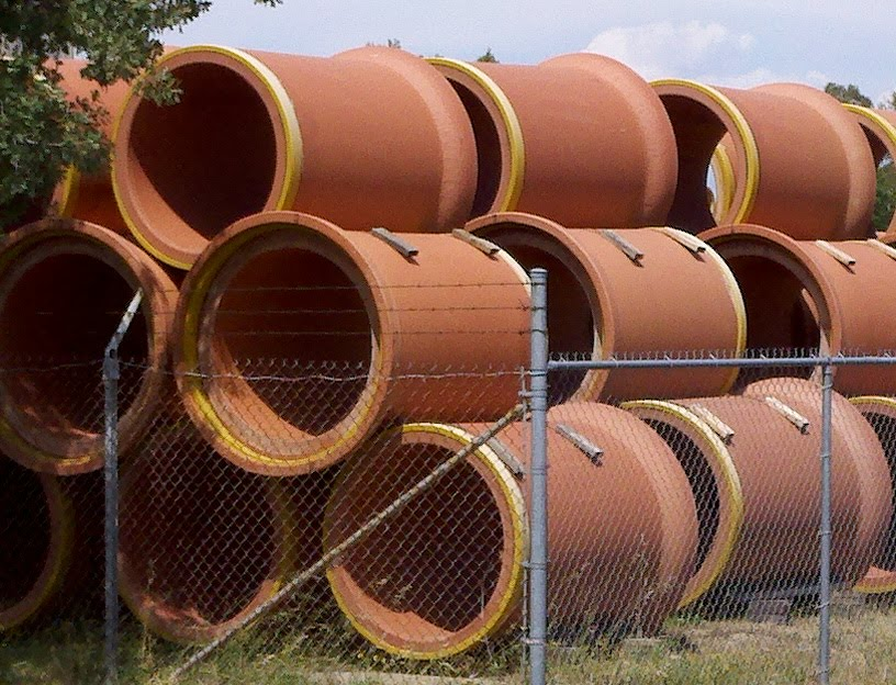 Ceramic sewer pipe manufactured by Gladding, McBean LLC — and stored at their factory in Lincoln, California.